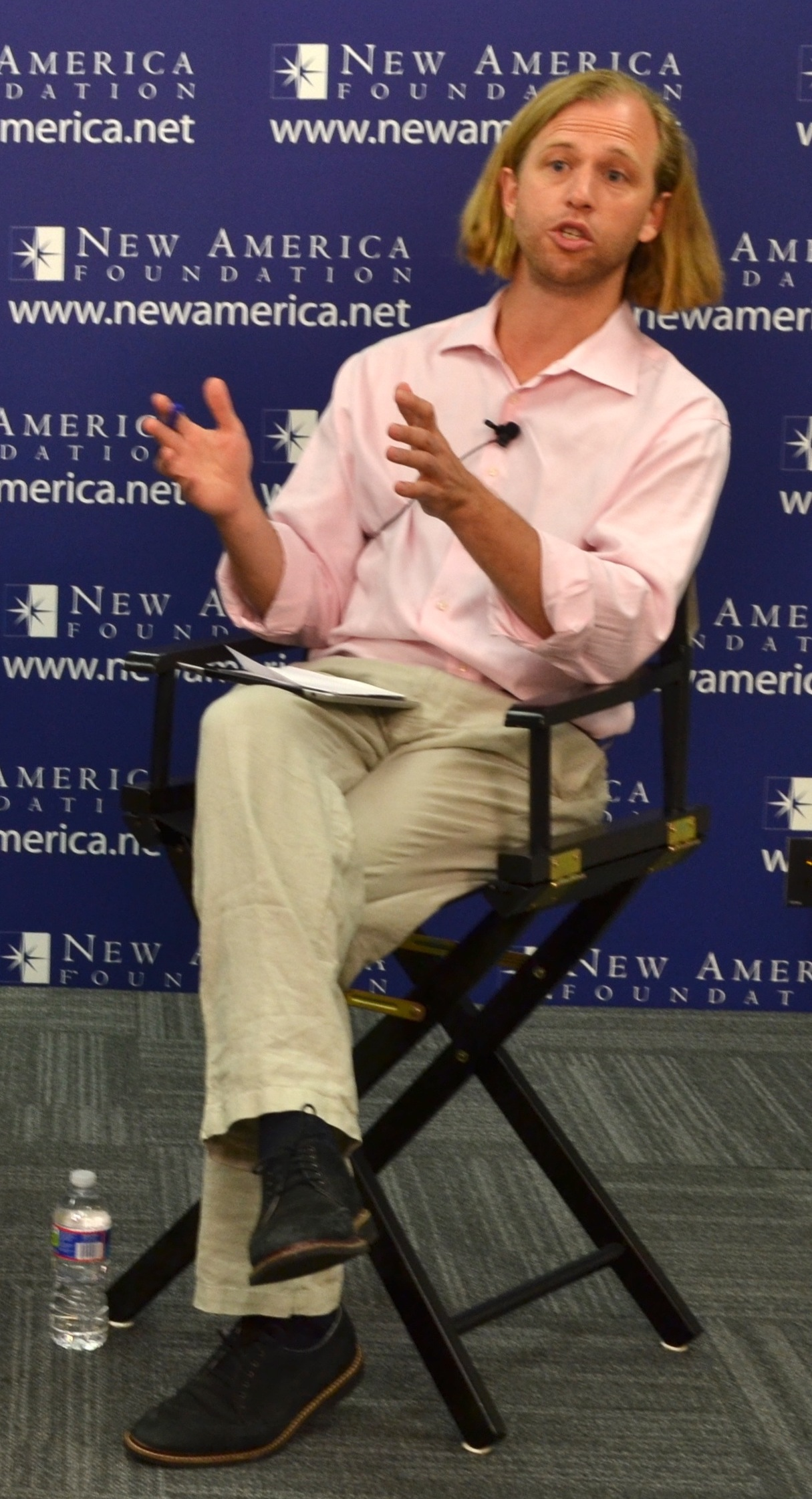 Economist Justin Wolfers